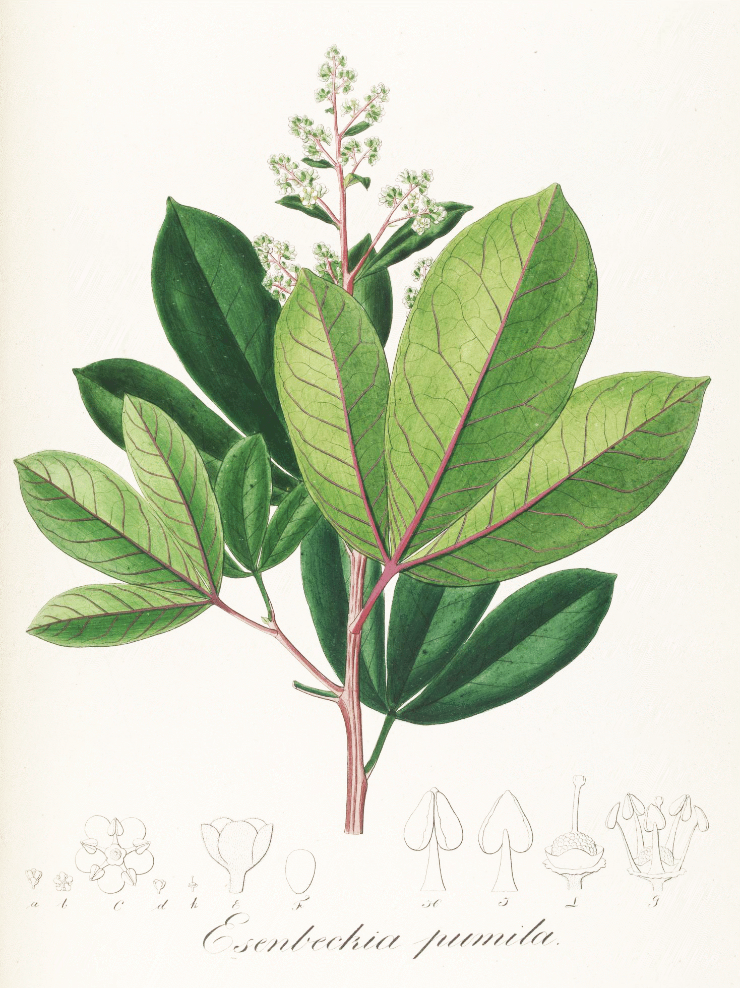 Plate from book